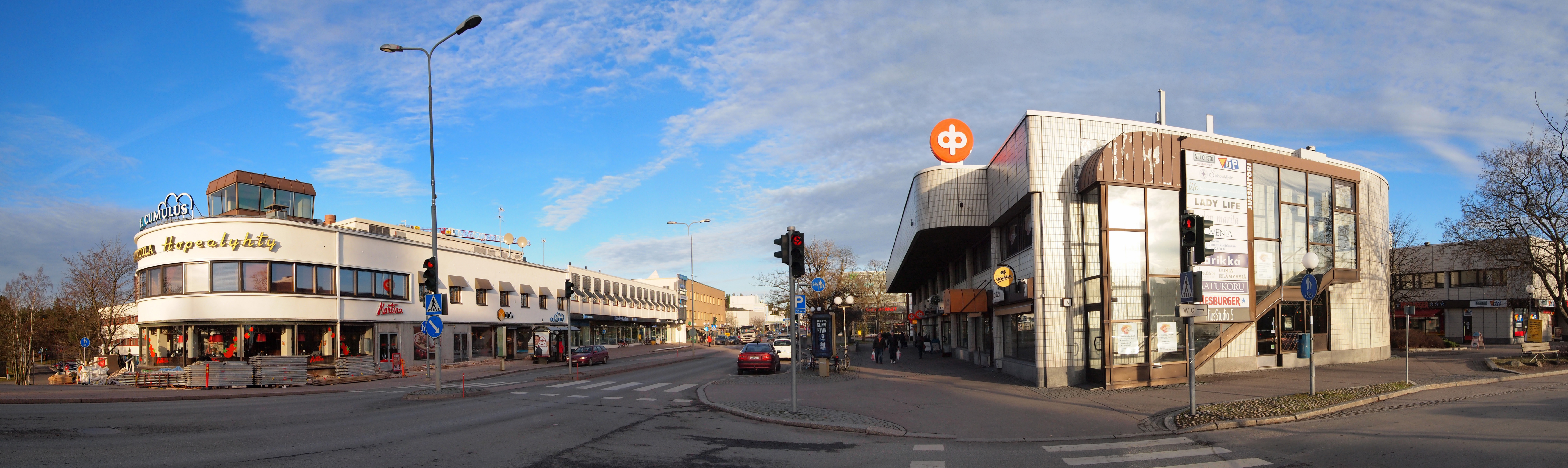 Panoramic view in Hyvinkää. The street in the front is Hämeenkatu. This photograph was taken with an Olympus E-PL1